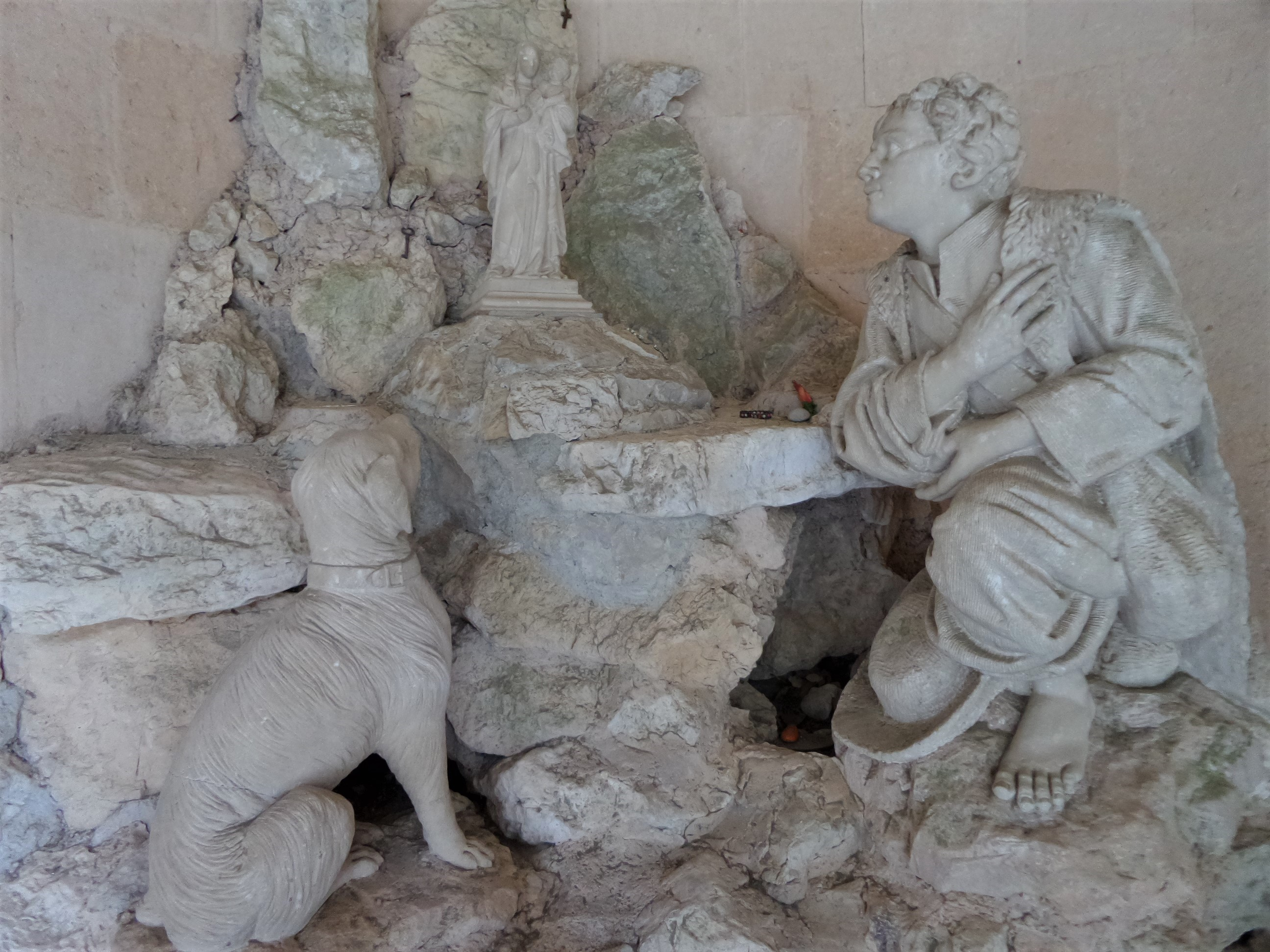 Chapel at Puig de Sant Salvador, Mare Déu del Bon Pastor